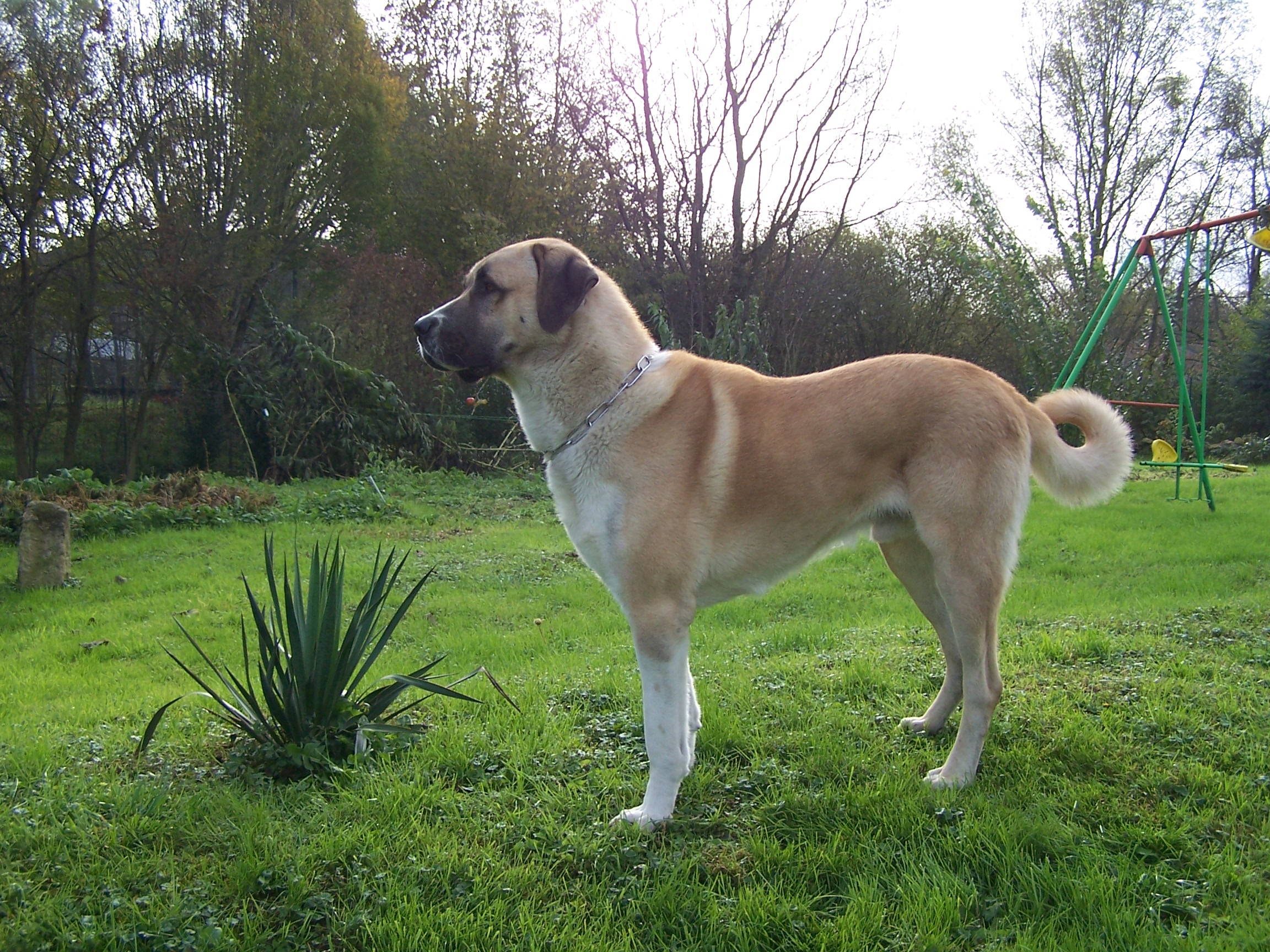 Varish du val de la Boissiere(2CVX028) is Champion of France, Luxembourg Champion, European Champion, Champion of Croatia, Belgian Champion, Champion of Switzerland, Netherlands Champion, Champion of Germany. But Varish is also World Champion in 2008 in Stockholm BOB and Best in Show in the WORLD TOUR WINNER 2008 (SBHK) and multi-National winner in livestock. Varish is a wonderful Anatolian Shepherd born 25/05/2004. Born into a lineage of champions (Ogan du val de la Boissiere, Lipsos du val de la Boissiere,Hisar Razi, Laika du val de la Boissiere, Firat), heredity for his protection is very deep and a huge respect for his family and children. Its measurements are 80 cm at the withers and 64 kg. Living outside, summer or winter, he is very strong and athletic. Varish is identified genetically.